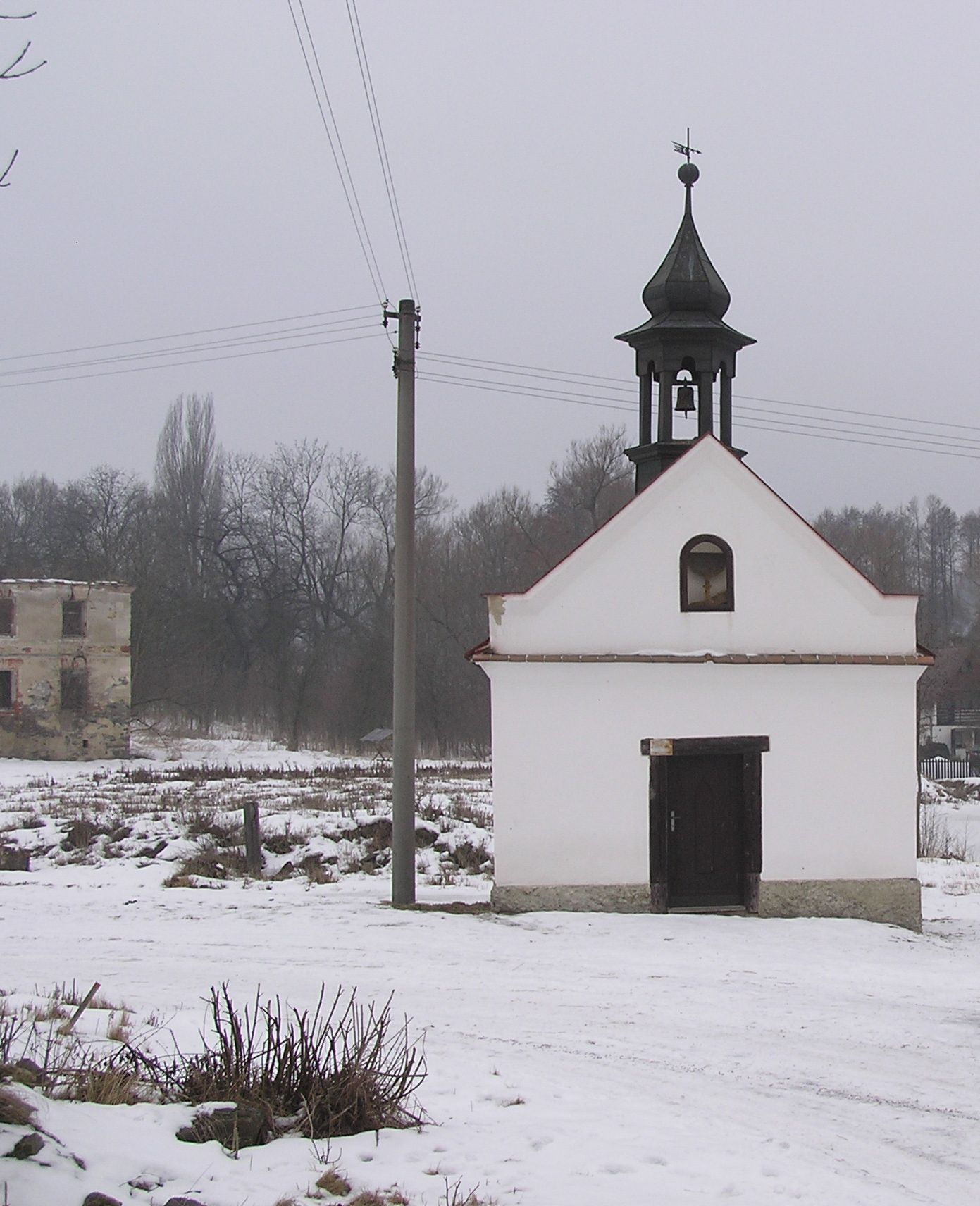 Small Chapel in Chmelištná